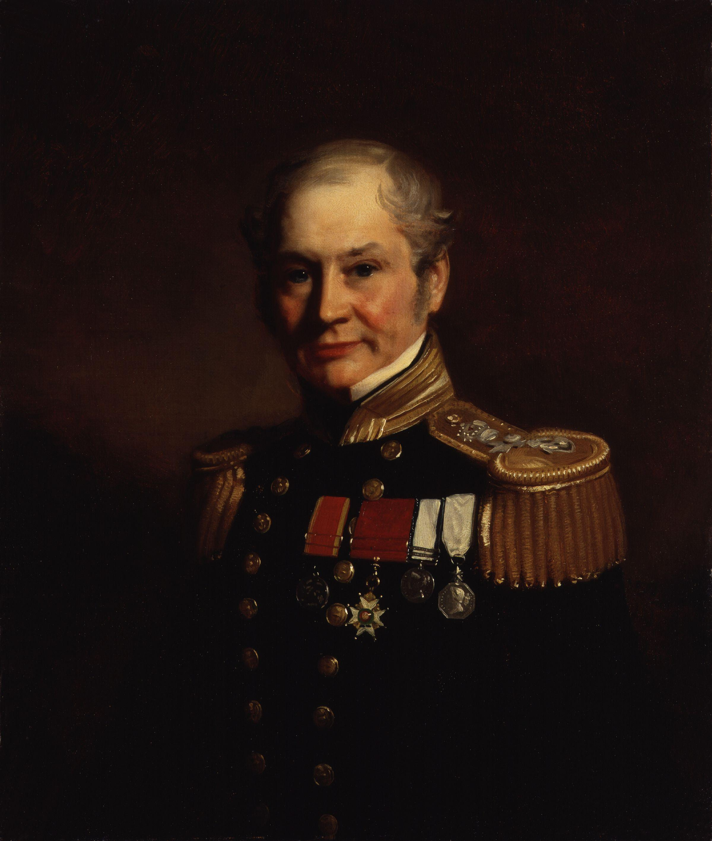 Sir Edward Belcher, by Stephen Pearce (died 1904). All images in this batch have been confirmed as author died before 1939 according to the official death date listed by the NPG.